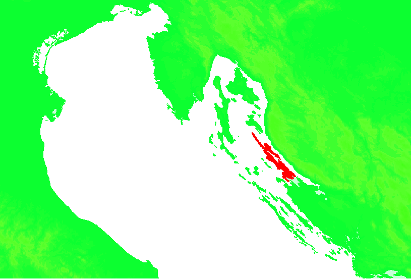 Island of Croatia Croatia - Pag.PNG